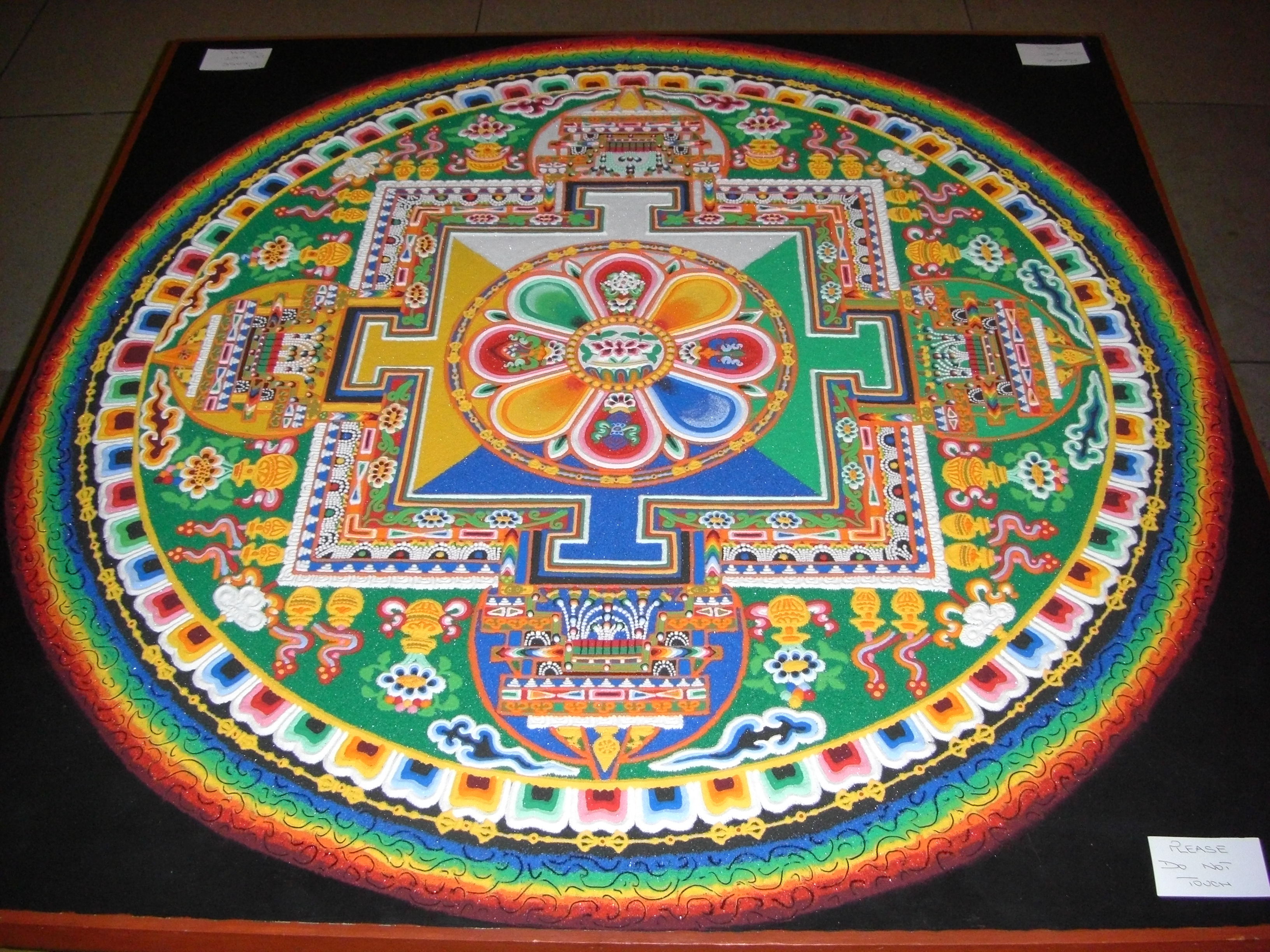 Photo of a Chenrezig Sand Mandala created and exhibited at the House of Commons on the occasion of the visit of the Dalai Lama on 21 May 2008. Photograph taken by the uploader.